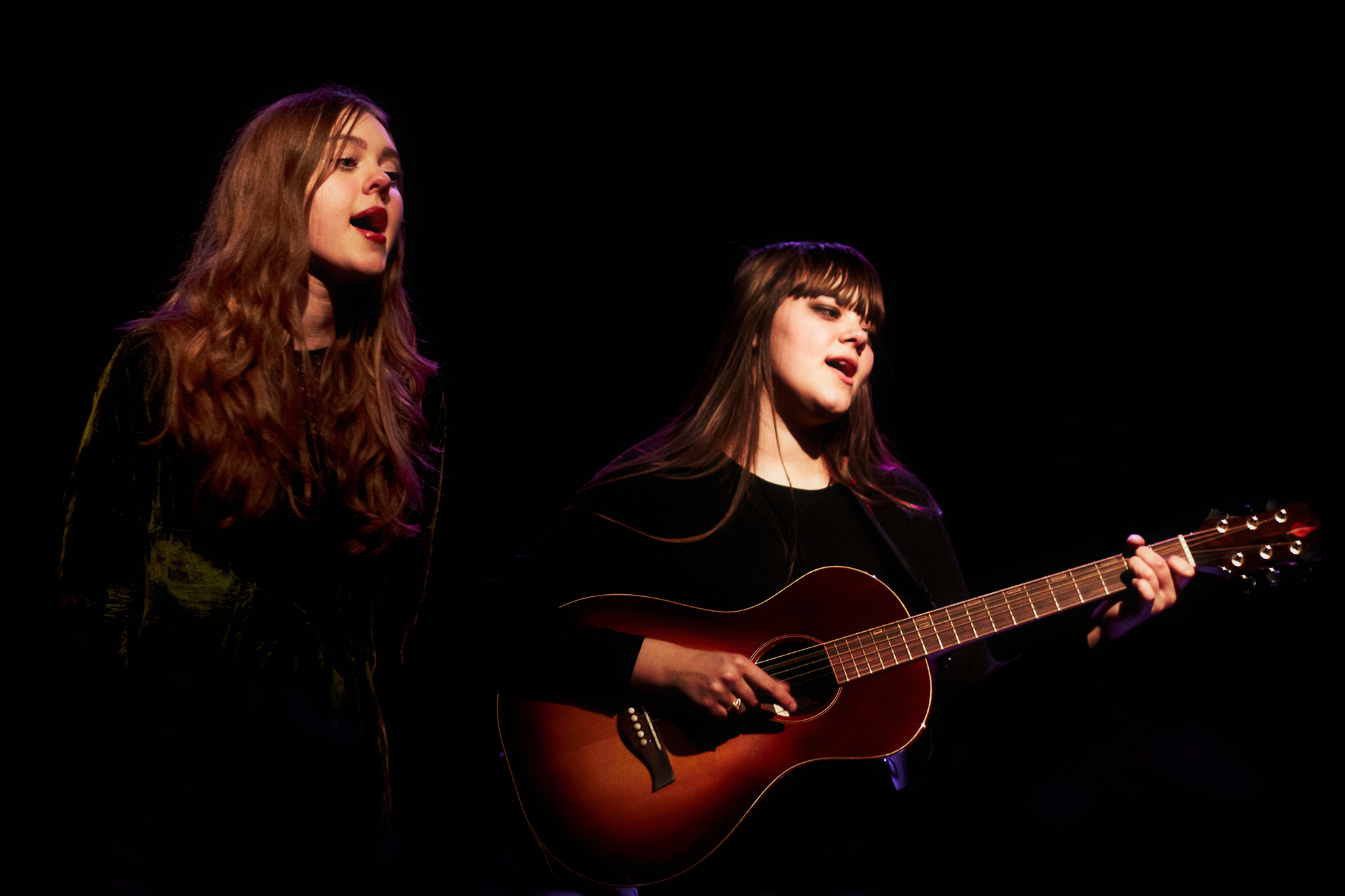 The Swedish duo First Aid Kit (Johanna and Klara Söderberg) at the "Brotfabrik" in Frankfurt am Main